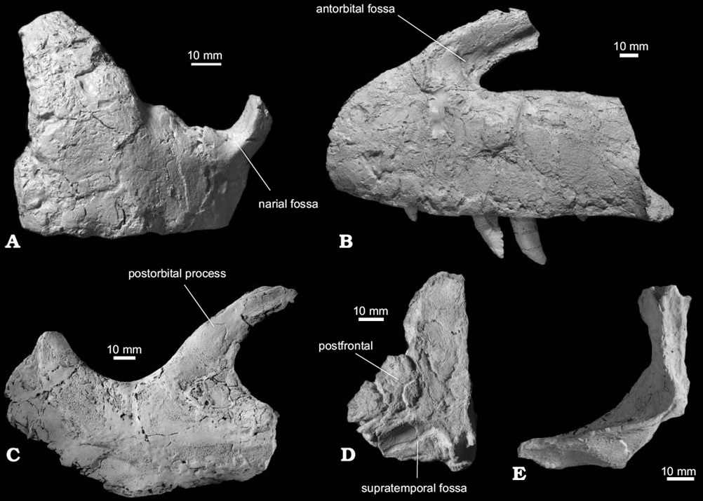 A predatory archosaur Smok wawelski gen. et sp. nov., Lisowice (Lipie Śląskie clay−pit), Late Triassic (lates Norian–early Rhaetian). A. Right premaxilla, ZPAL V.33/19, in lateral view. B. Left maxilla, ZPAL V.33/20, in lateral view. C. Left jugal, ZPAL V.33/97, in lateral view. D. Left frontal, ZPALV.33/21, in dorsal view. E. Left parietal, ZPAL V.33/98, in dorsal view.